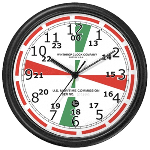 Radio Room Clock Face, showing the three-minute 500 kHz silence periods (red wedges), the 2182 kHz silence periods (green wedges), and alternating red and white bars around the circumference to aid manual transmission of the 4-second SOLAS distress signal. DSC distress calling at 2187.5 kHz, SAR and distress calling at 2182 kHz, Telex distress traffic 2174.5 kHz